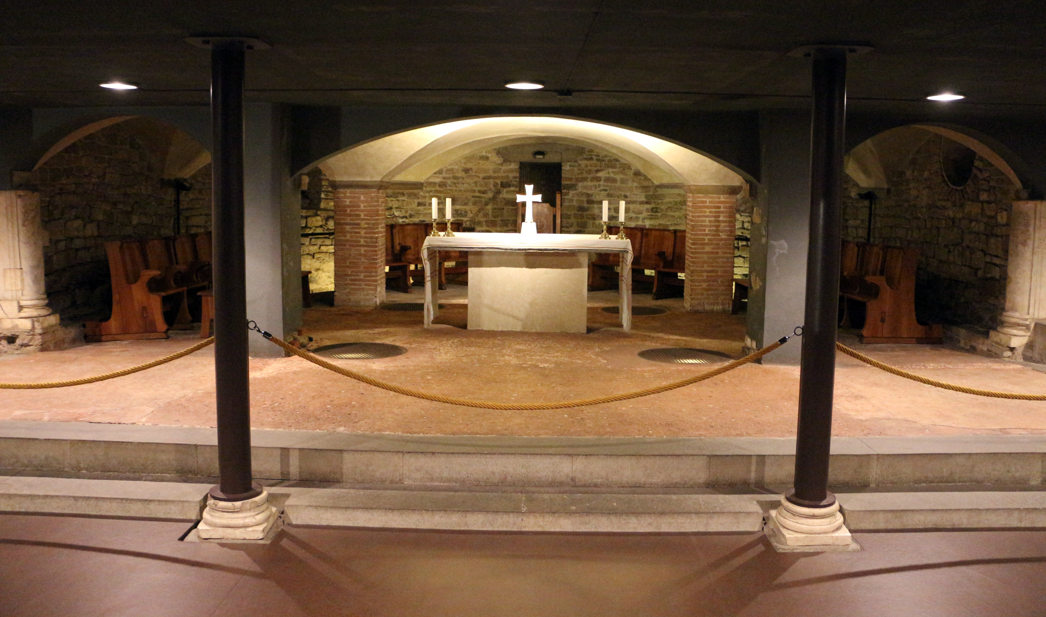 Santa Reparata (Florence)